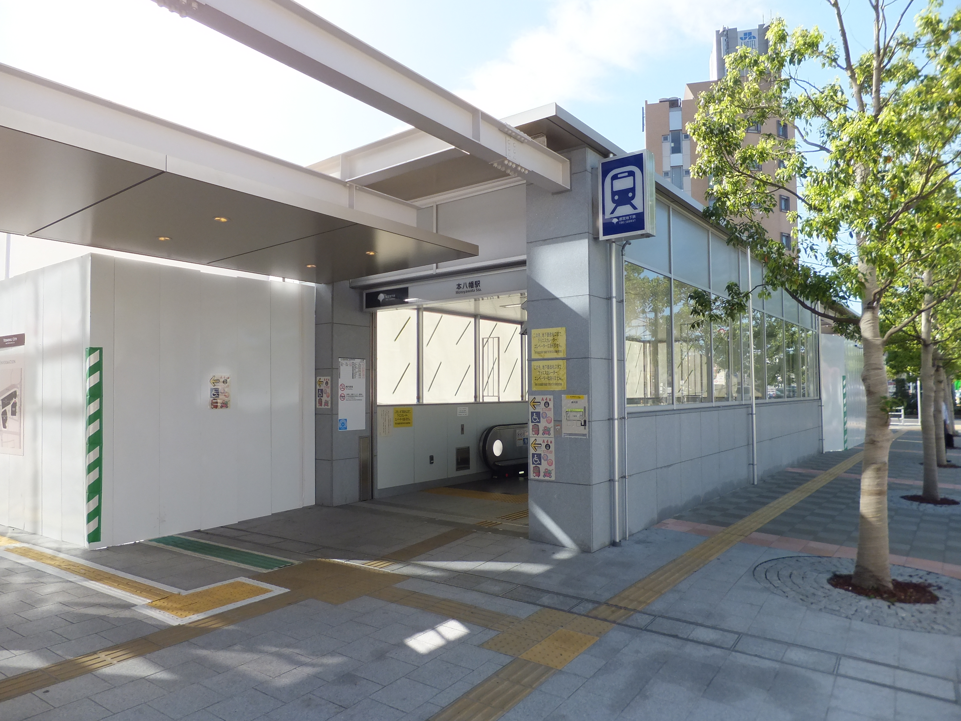 Motoyawata Station operated by the Toei Subway, in Ichikawa, Chiba, Japan